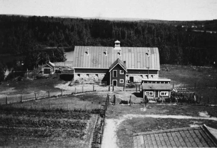 St. John's Indian Residential School (Chapleau, Ontario) farm buildings circa 1930.